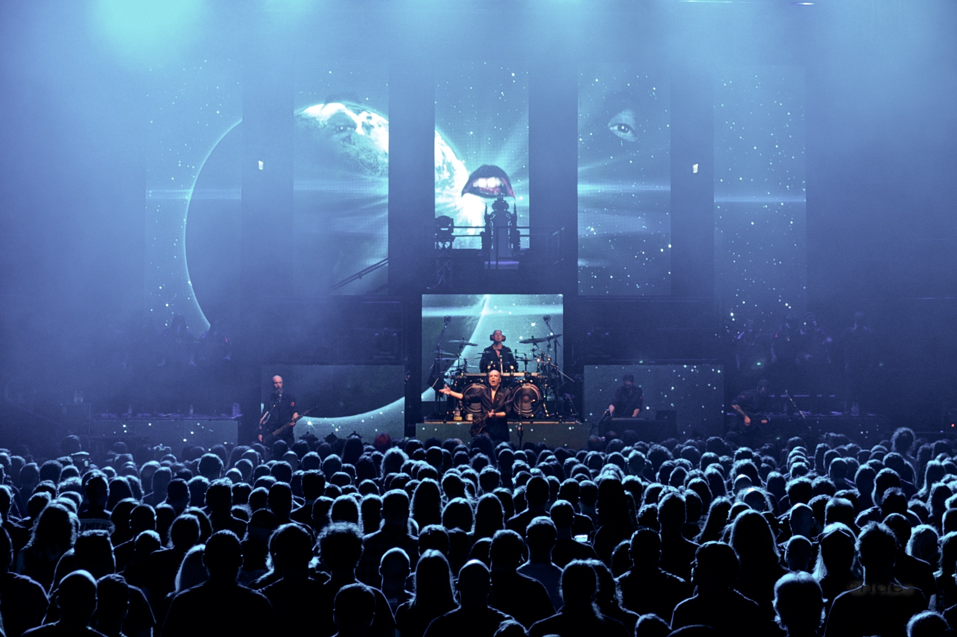 Devin Townsend Project at Royal Albert Hall, Z² April 13th 2015